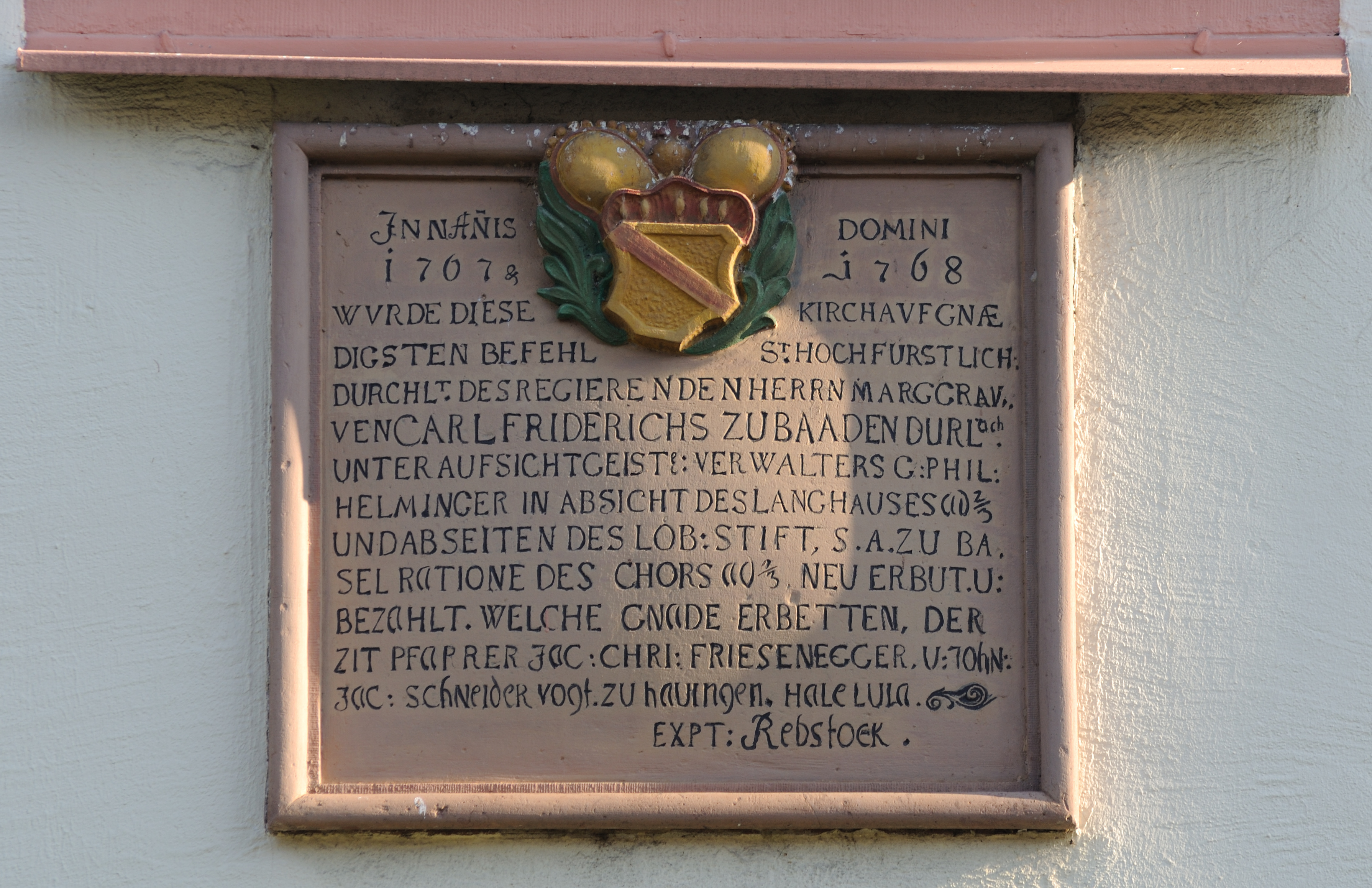 Hauingen: foundation signboard of Saint Nicolaus